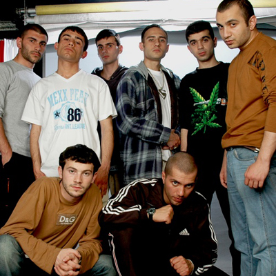 Caspian Clan